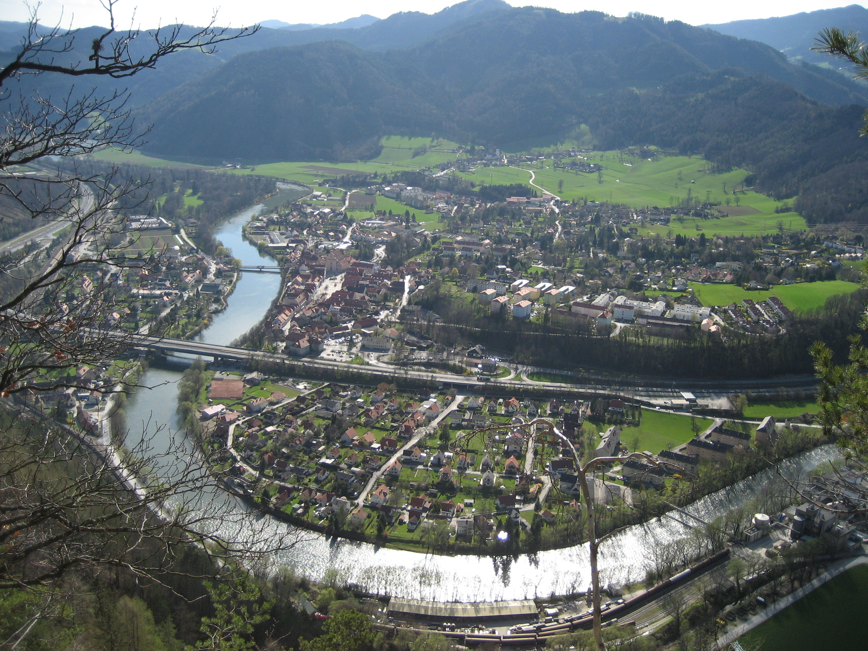 Frohnleiten in Styria, Austria, seen from Gschwendtberg (Frohnleiten, Styria, Austria, seen from Gschwendberg)